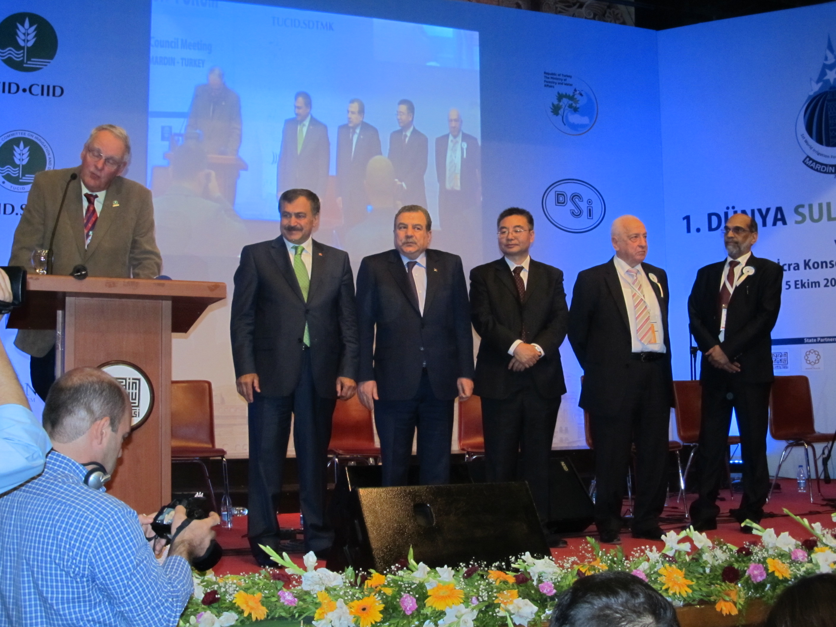 During the inaugural ceremony of the 1st World Irrigation Forum, H.E. Prof. Dr. Veysel Eroğlu, Turkish Minister of Forestry and Water Affairs presented the first World Irrigation and Drainage Prize 2013 to Prof. Victor A. Dukhovny (Uzbekistan)